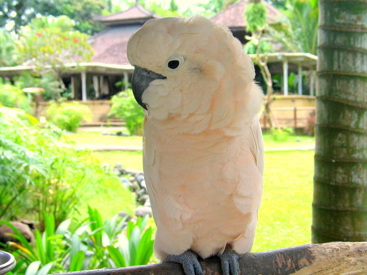 Moluccan Cockatoo (Cacatua moluccensis) at Bali Bird Park.Birds .es-1